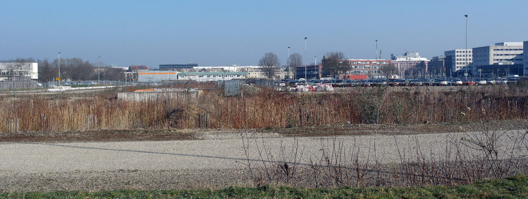 Maastricht, the Netherlands. View of the former construction site of the failed Caltrava campus near the university hospital buildings in the district of Randwyck.